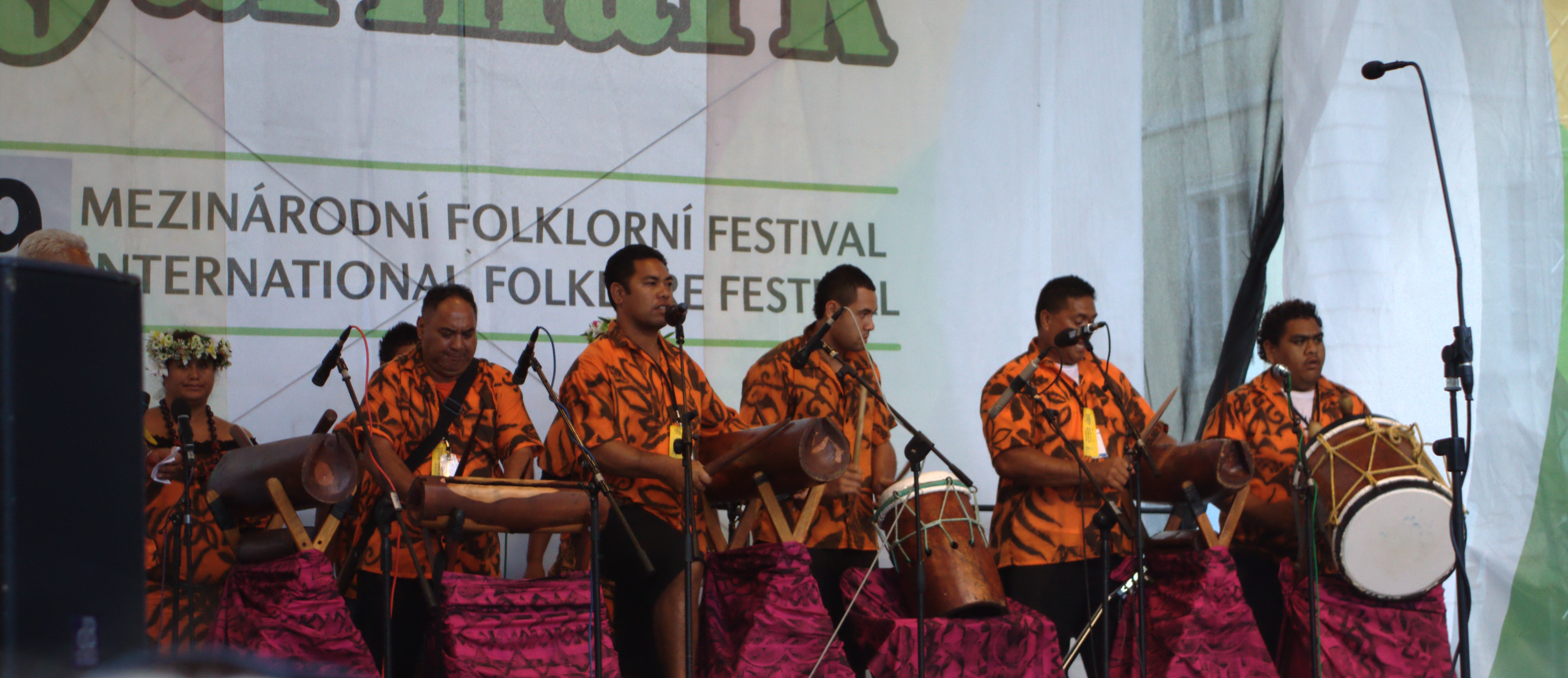 9th international folklore festival "Pražský jarmark" - Pacific (Cook Islands) folk group Akirata Folk Dance Group Personality rights warningAlthough this work is freely licensed or in the public domain, the person(s) shown may have rights that legally restrict certain re-uses unless those depicted consent to such uses. In these cases, a model release or other evidence of consent could protect you from infringement claims.